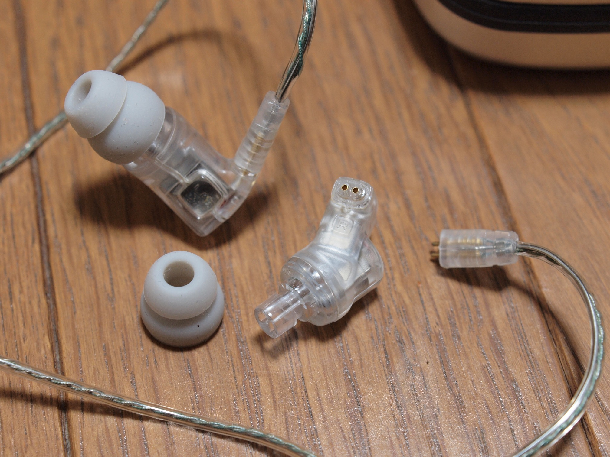 Ultimate Ears SuperFi 5 Pro